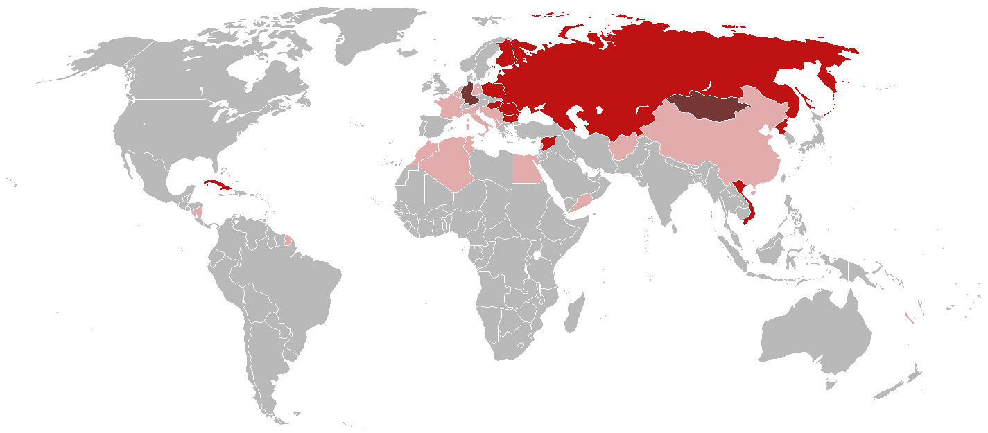 Member states of International Radio and Television Organisation (OIRT). Members at the time of dissolution (1993) Members that were part at some time of OIRT before its dissolution Associate members